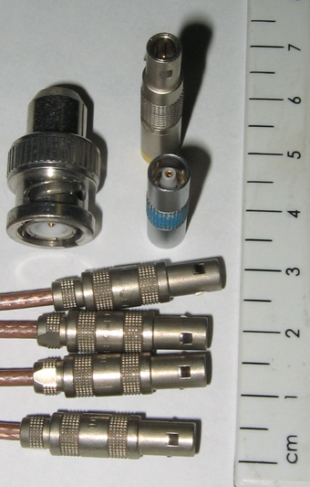 Photo of Lemo 00 coaxial connectors